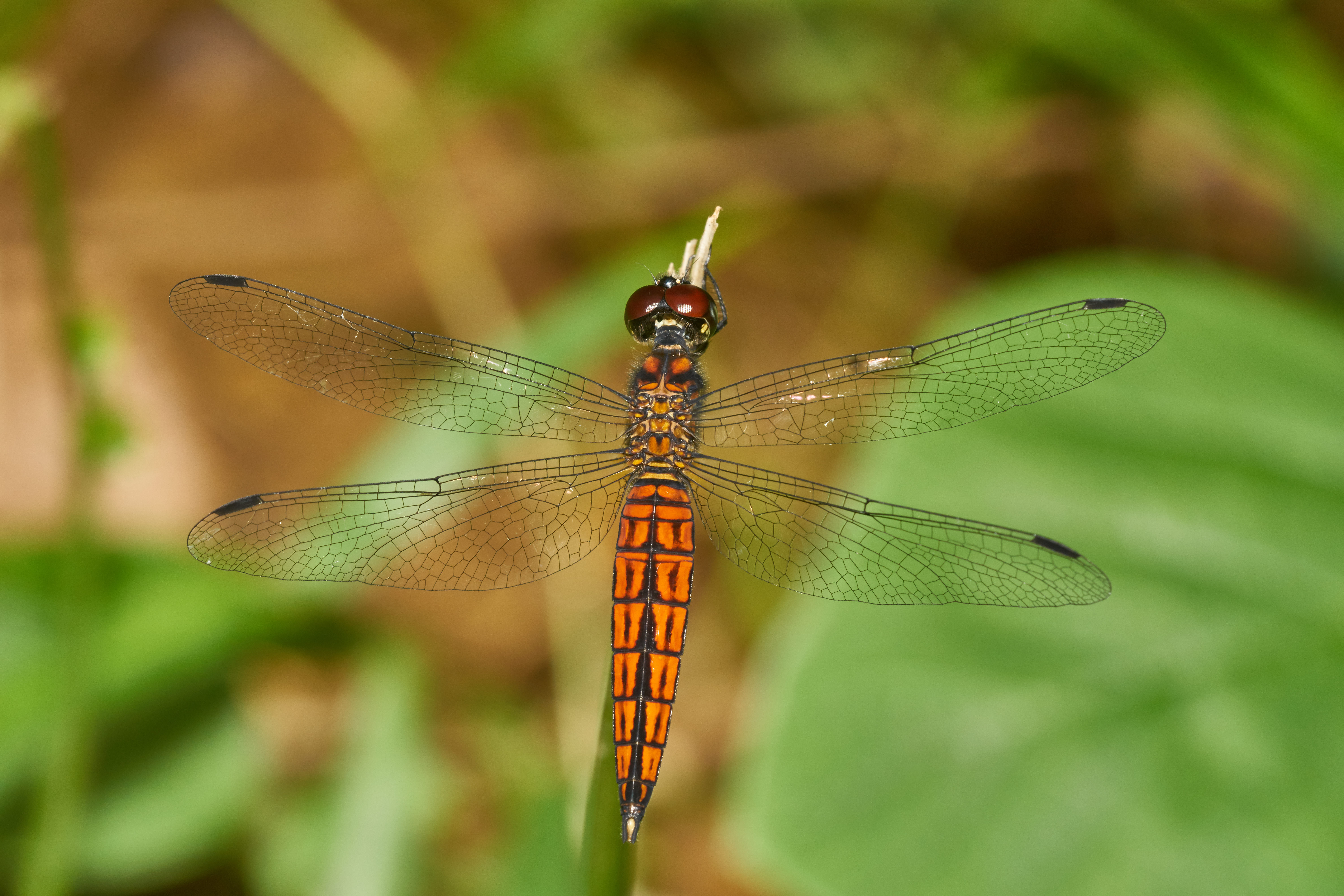 Lyriothemis acigastra male